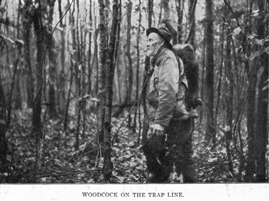 Eldred Nathaniel Woodcock on his trapline.